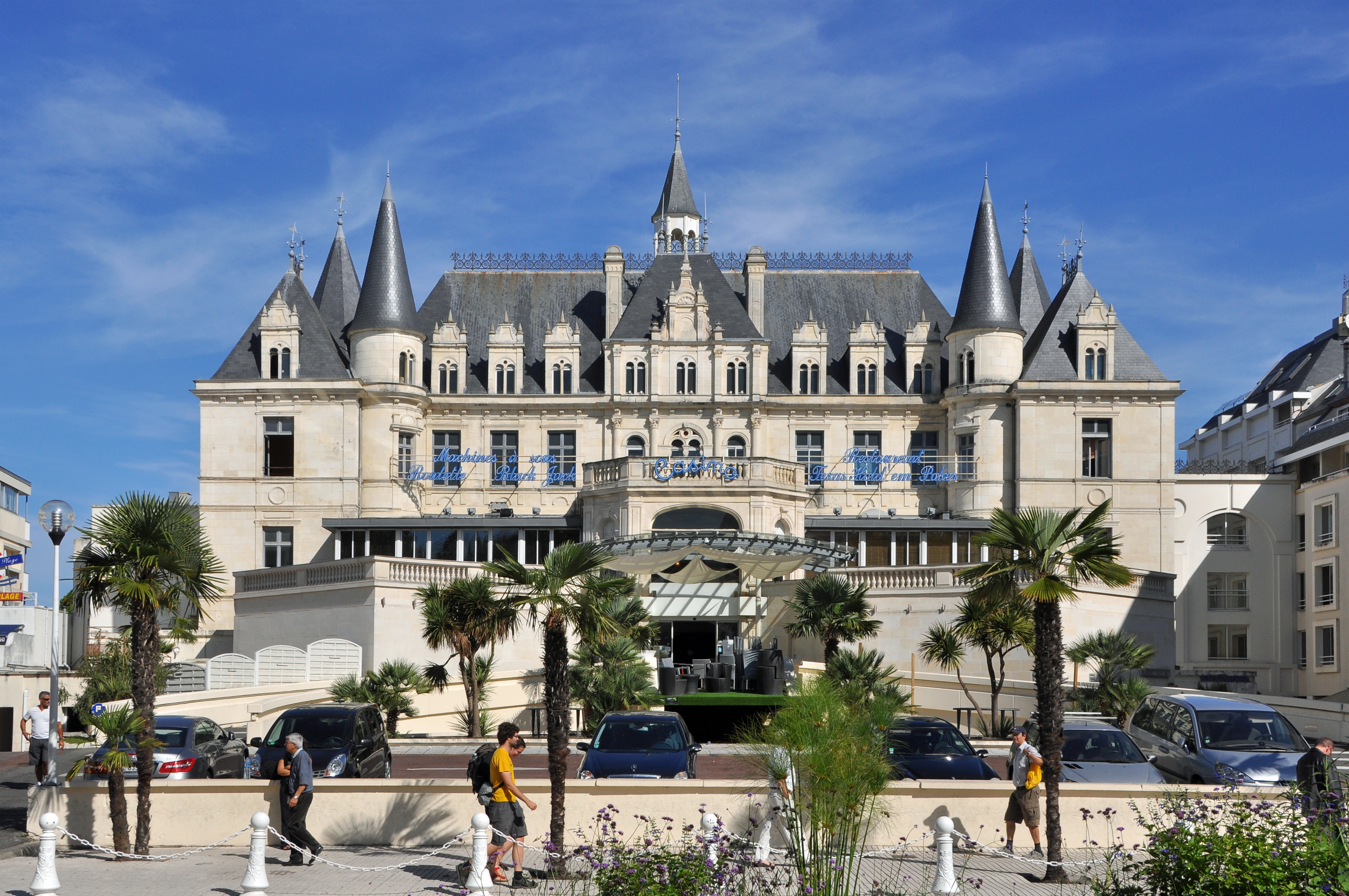 Arcachon (France): the casino